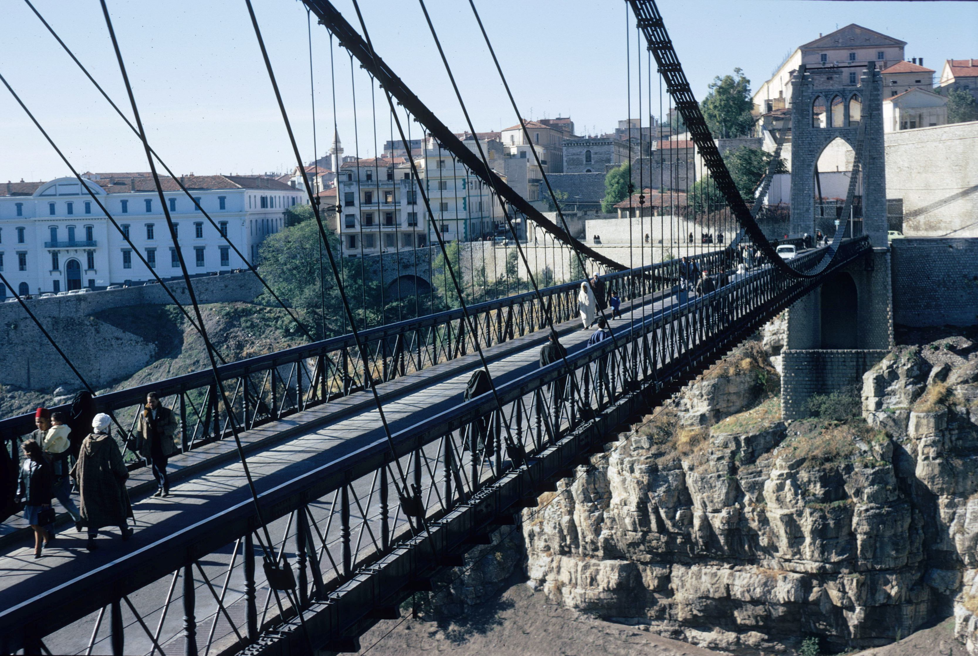 Bridge Sidi m'sid, Constantine, Algeria